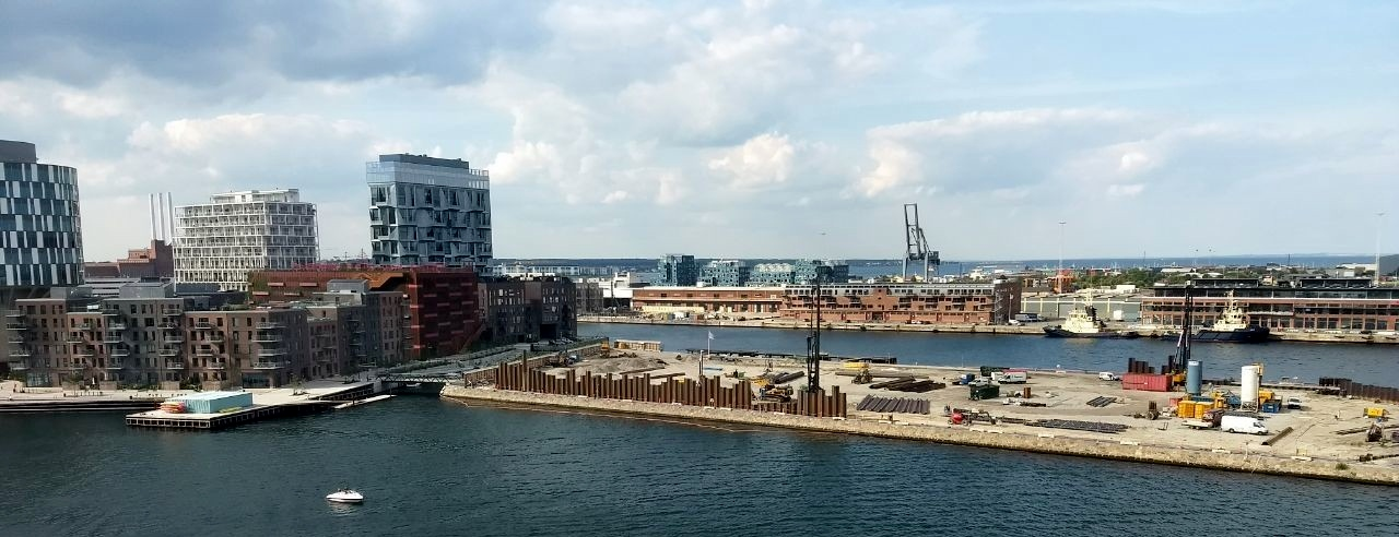 Port of Copenhagen